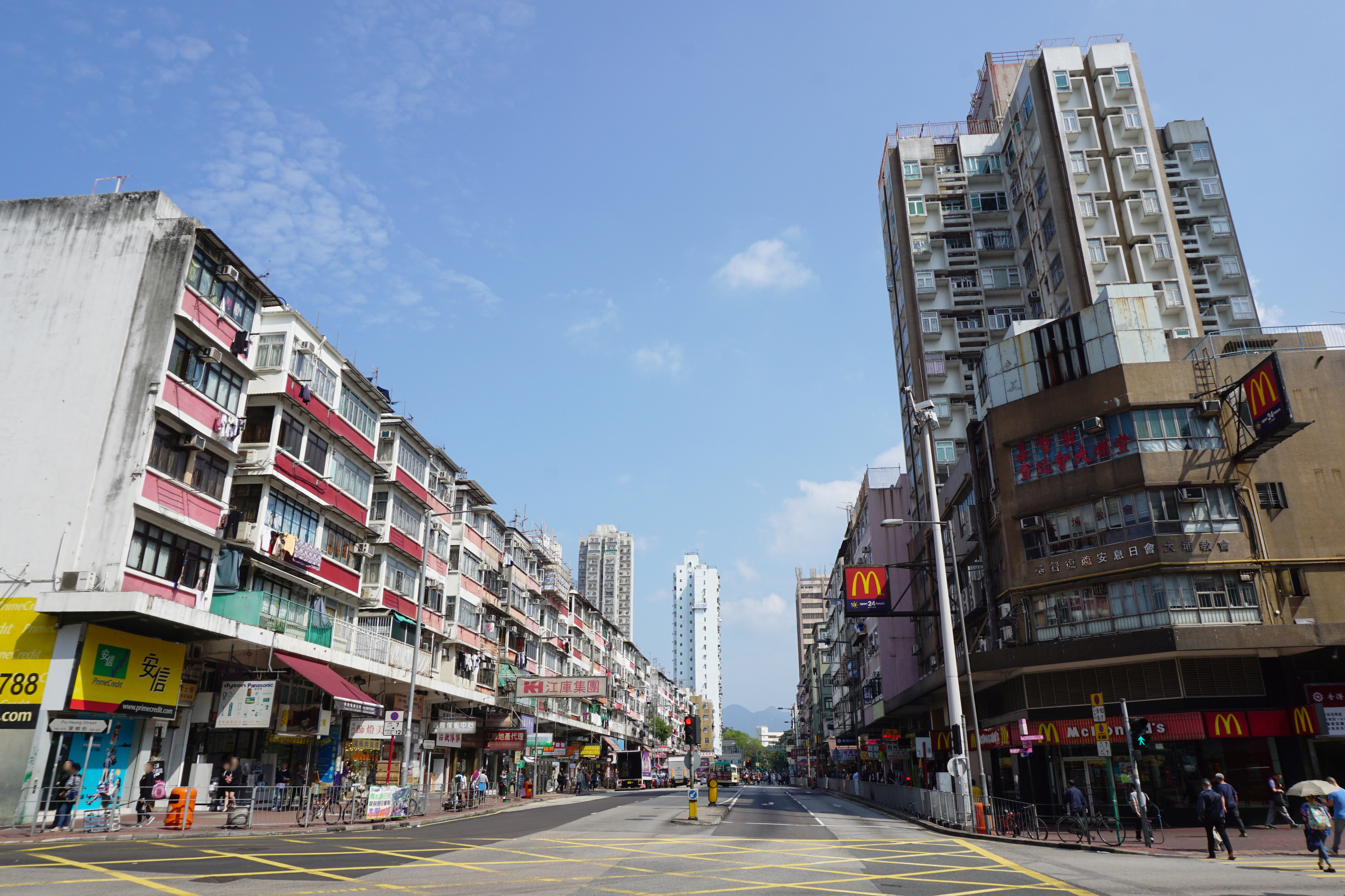 Kwong Fuk Road in Tai Po, Hong Kong.